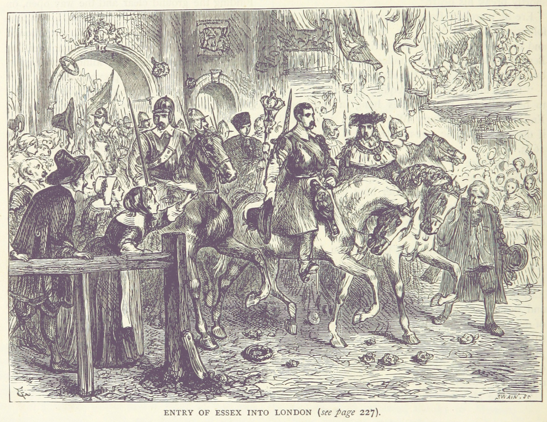 Robert Devereux, 3rd Earl of Essex enters London after the First Battle of Newbury.